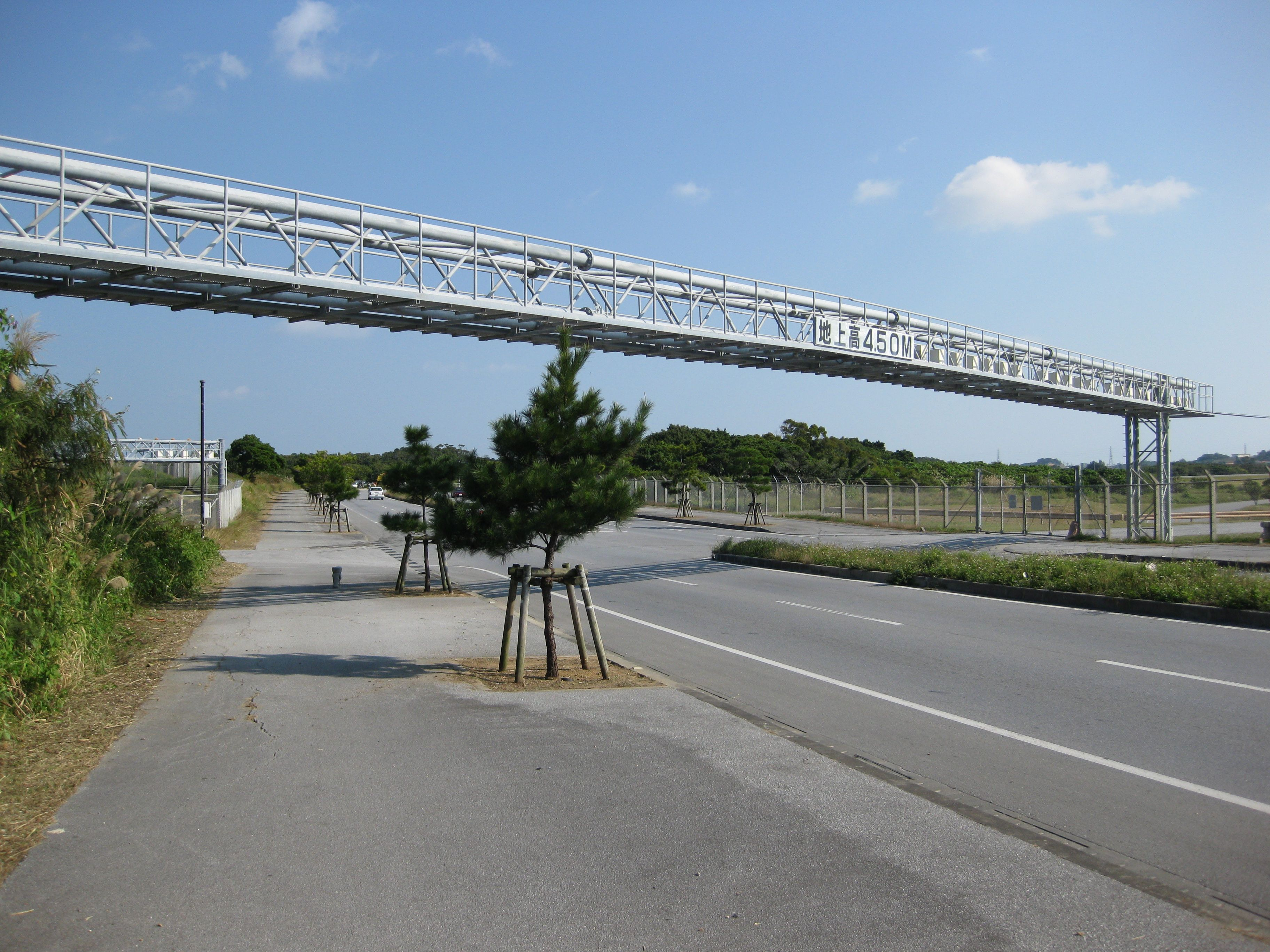 Approach Lighting System over Road at Kadena Air Base